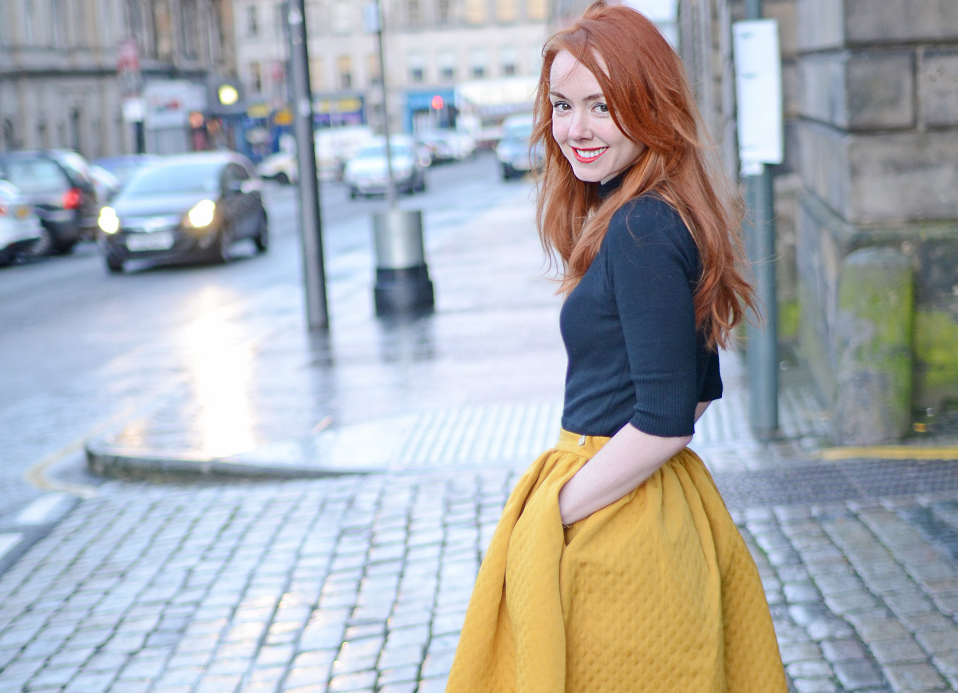 Picture of the the UK journalist and blogger Amber McNaught